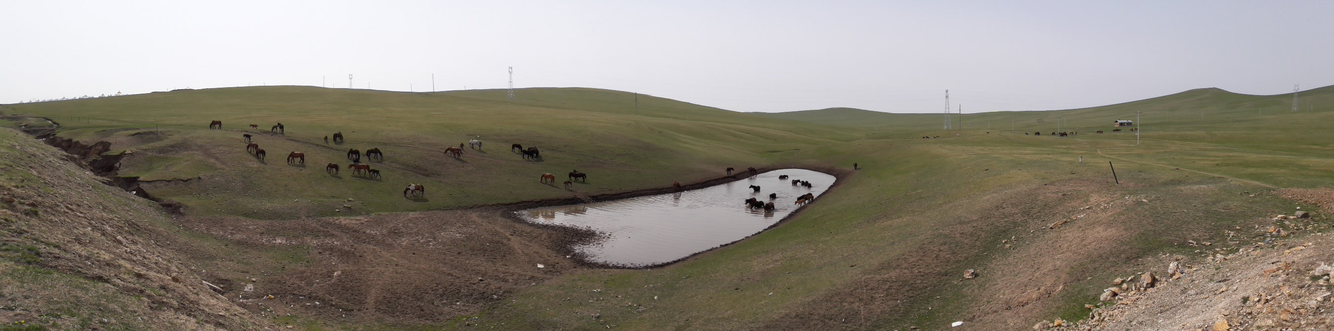 Some horses playing in Hulunbuir steppes.